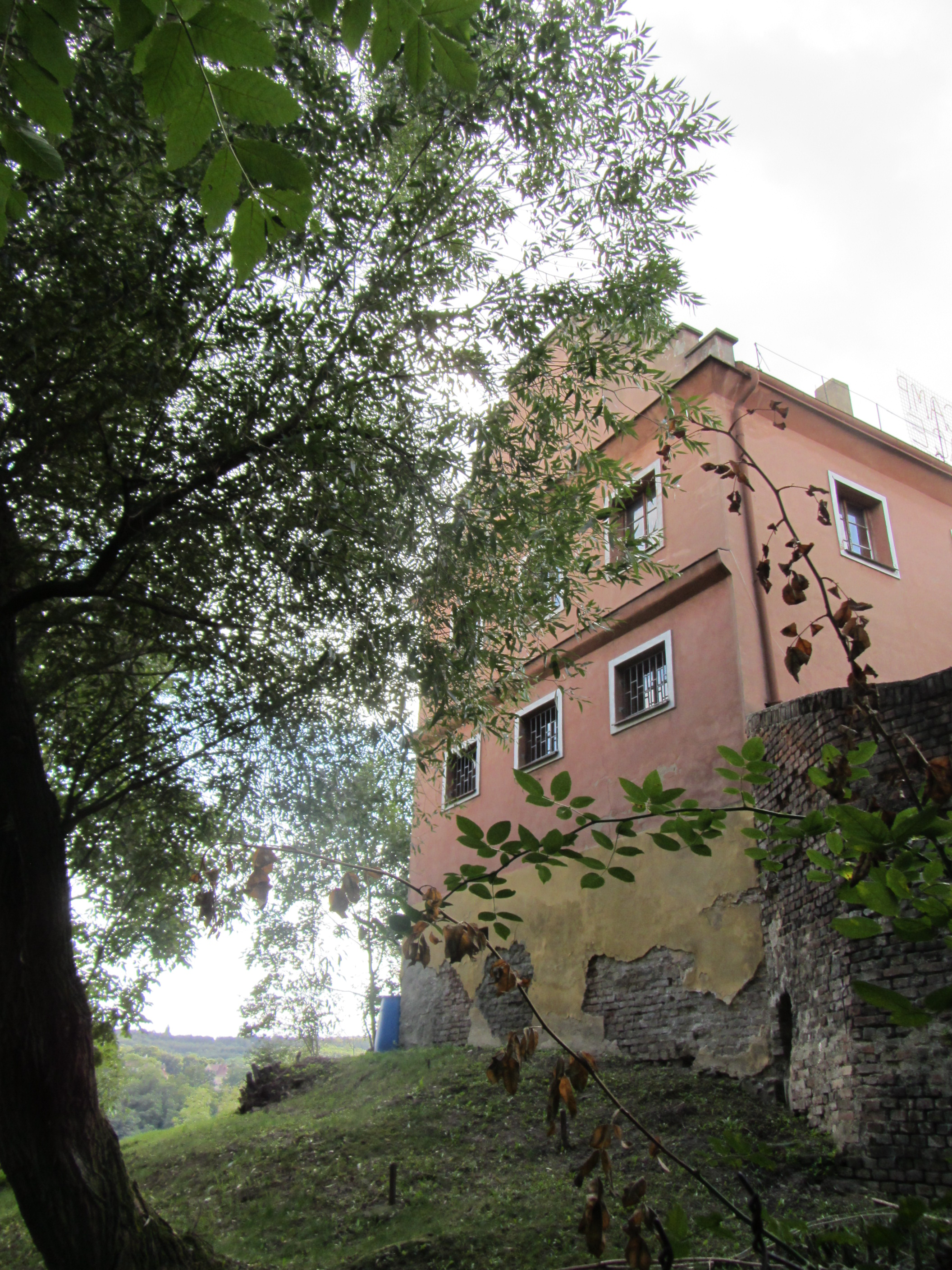 Homestead Kotlářka, Prague, a view of the southern from the east